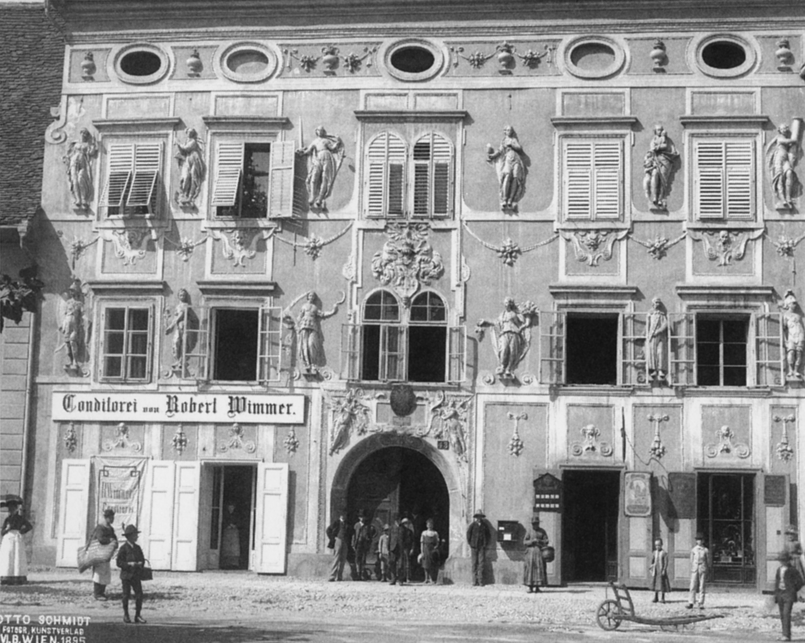 Petschar, Friedlmeier, Steiermark in alten Fotografien, Ueberreuther Verlag Wien. Scanprojekt Community Projektbudget 2012 This scan or this PDF-file was created within the GLAM-project Bookscanning, supported by Wikimedia Germany and Wikimedia Austria as a part of the community-project to capture books, documents and pictures which are not eligible to copyright or for which the copyright has expired. This document describes or depicts an object which is located in Austria today. Texts are written German language. Send requests for uncompressed scans to Hubertl. This work is in the public domain in its country of origin and other countries and areas where the copyright term is the author's life plus 100 years or less. You must also include a United States public domain tag to indicate why this work is in the public domain in the United States. This file has been identified as being free of known restrictions under copyright law, including all related and neighboring rights.